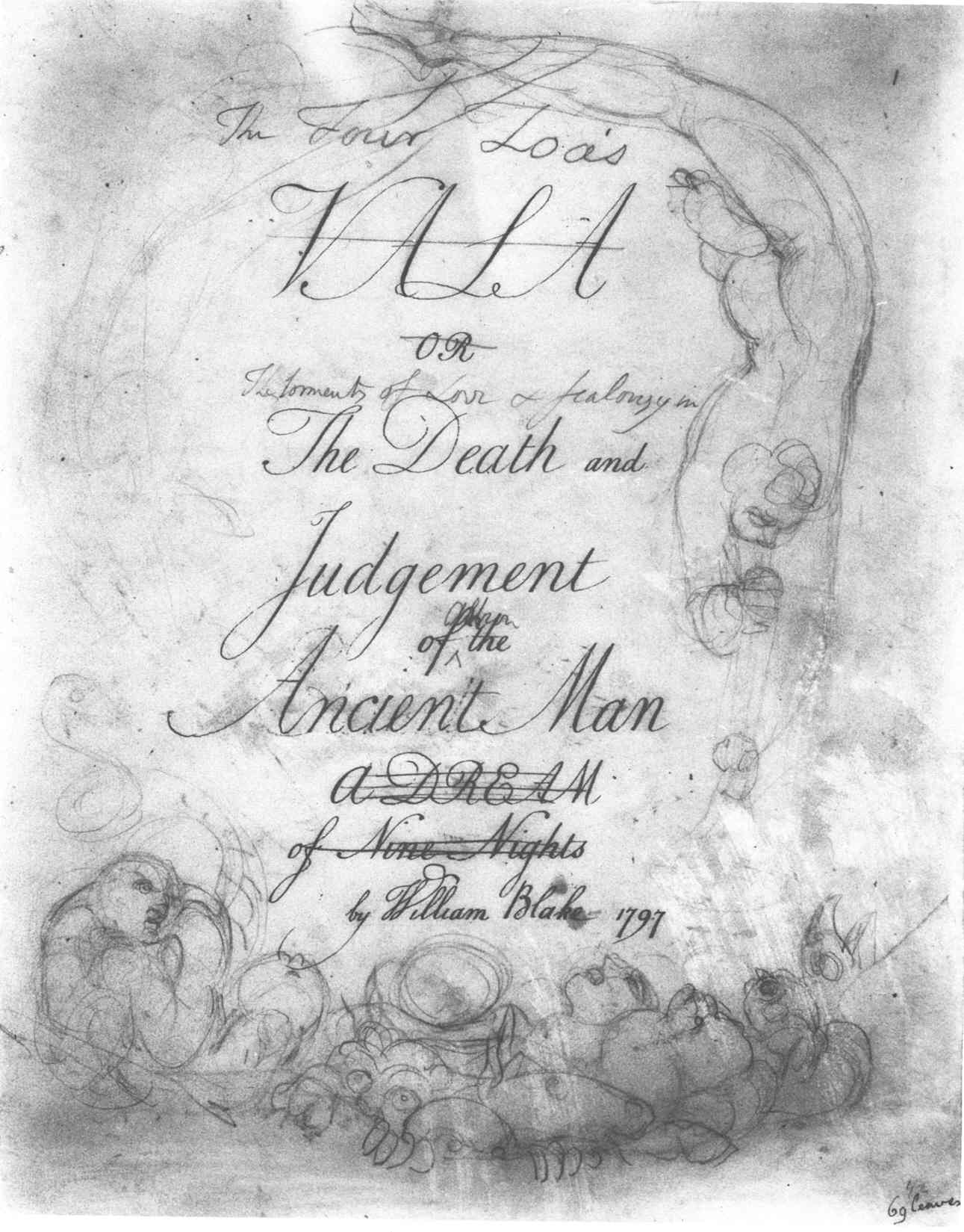 Vala, or Four Zoas Page 1